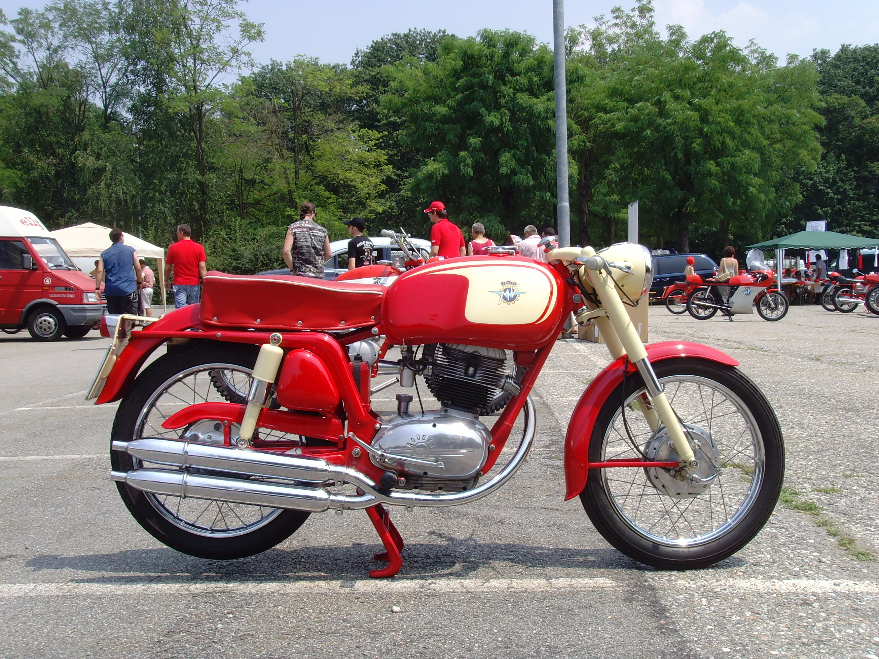 MV Agusta 150 Centomila (1959-1963)